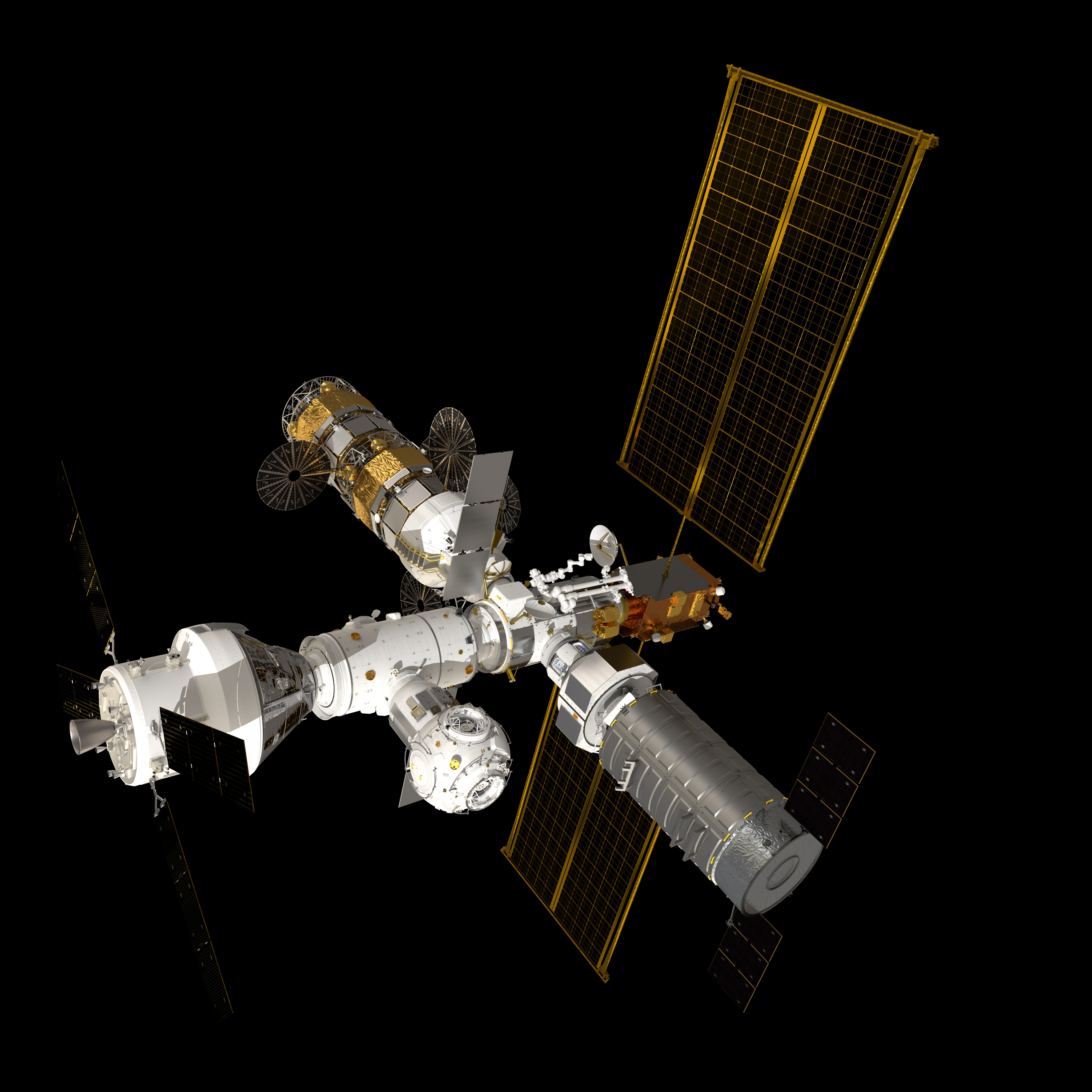 The updated configuration of the Lunar Orbital Platform-Gateway, as found on the HEOMD presentation of September 6, 2018.